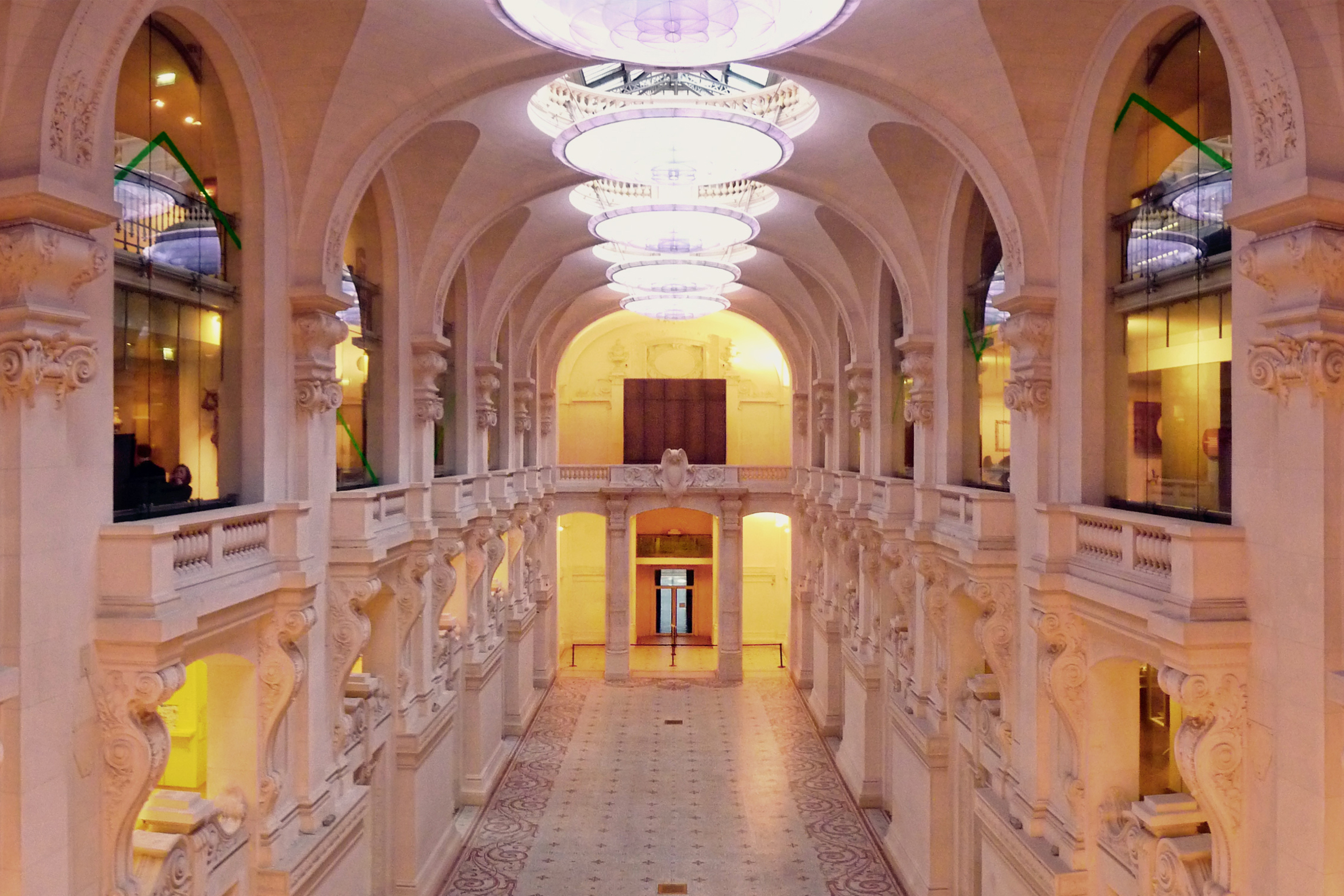 The interior Hall of Art et Decoration Museum in Paris, France.